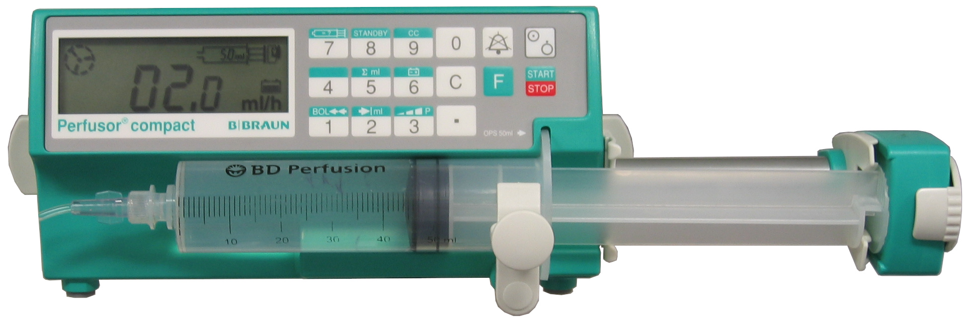 B. Braun Perfusor compact, Syringe driver